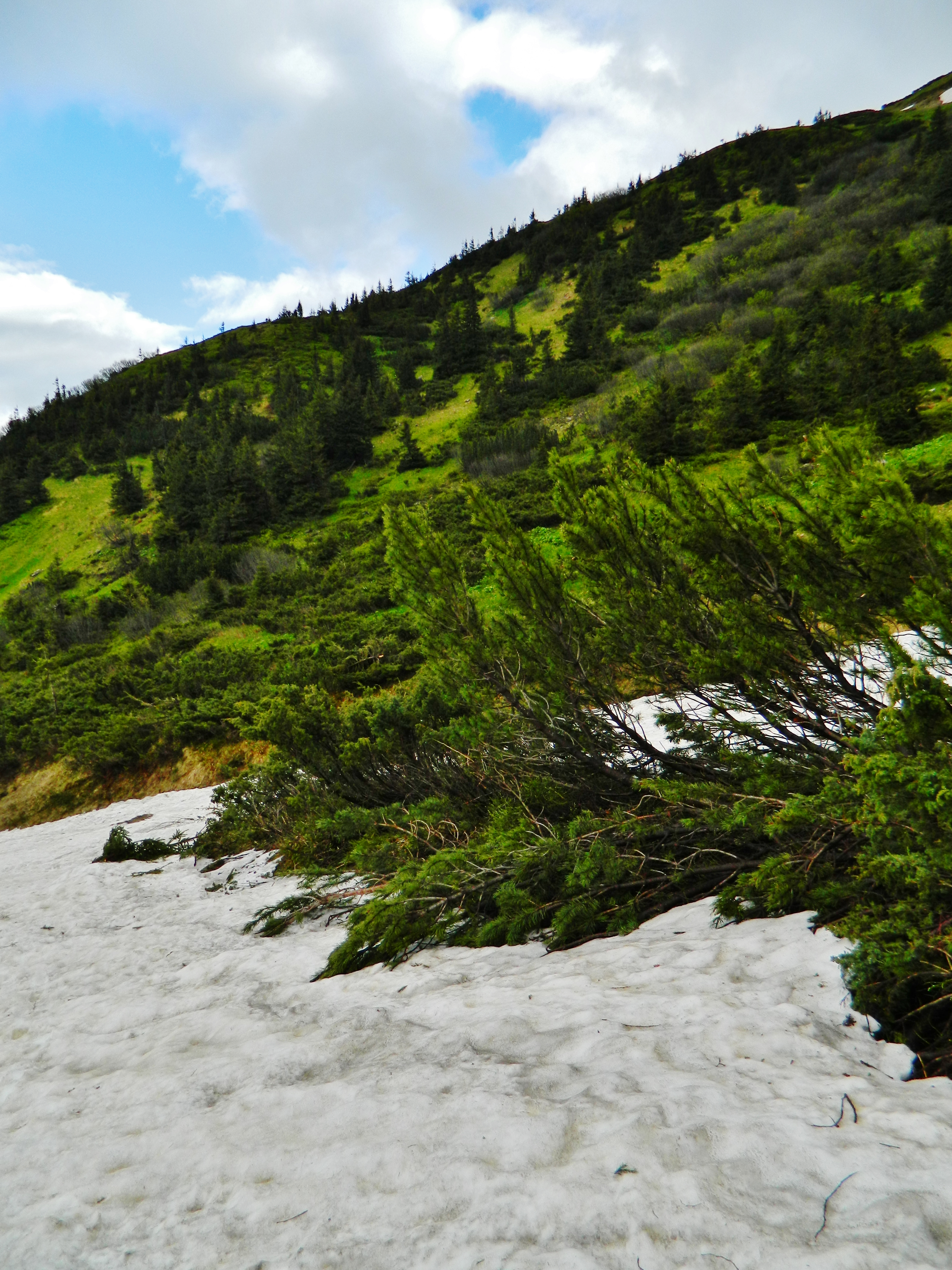 Branches of Pinus mugo break free from the snow. Pozhyzhevska mountain, Chornohora ridge in Ukrainian Carpathians